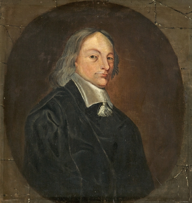 This is Sir Thomas Rich, 1st Baronet.